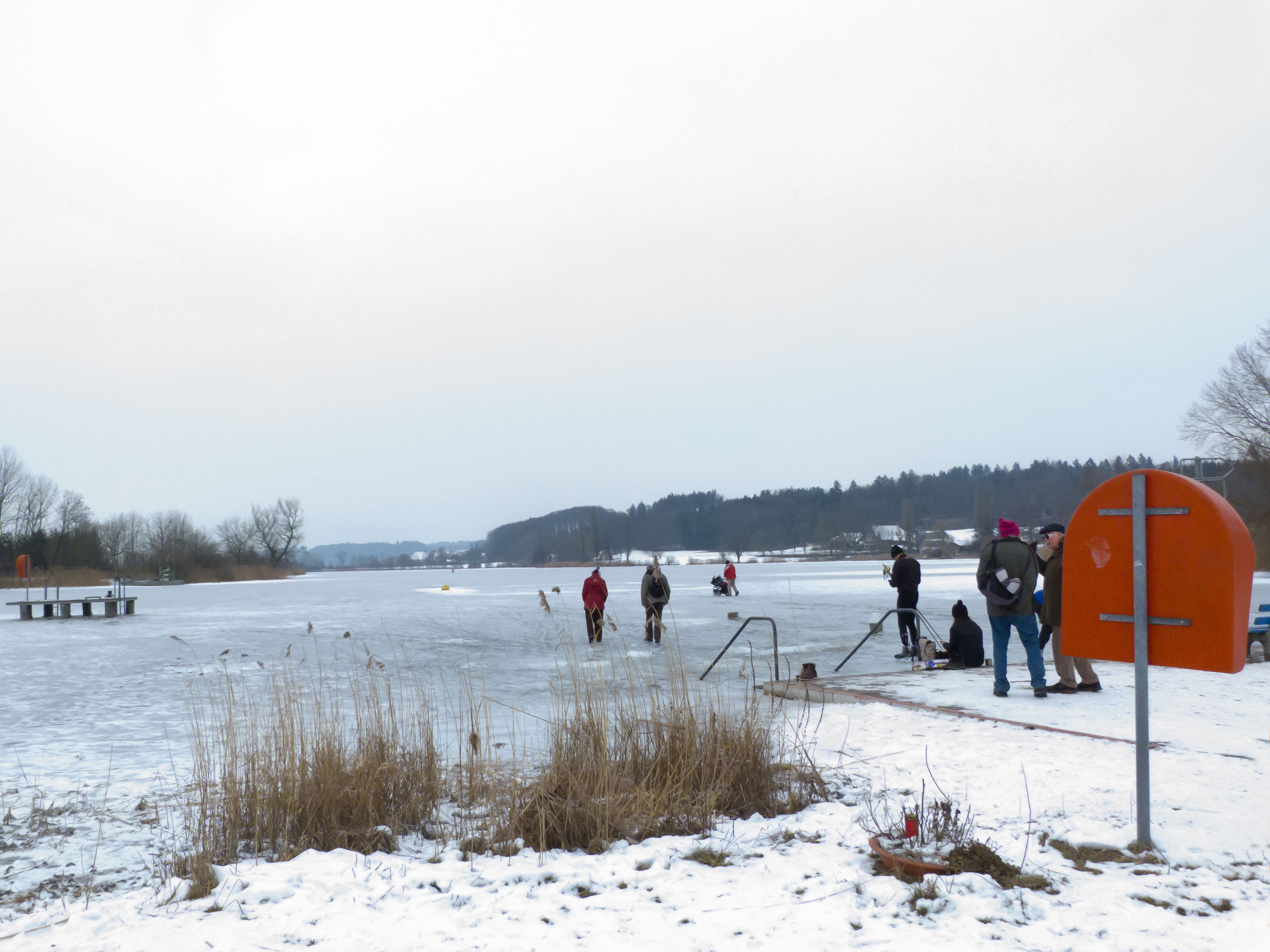 Lake Moossee frozen, near Beach Moosseedorf, February 2012